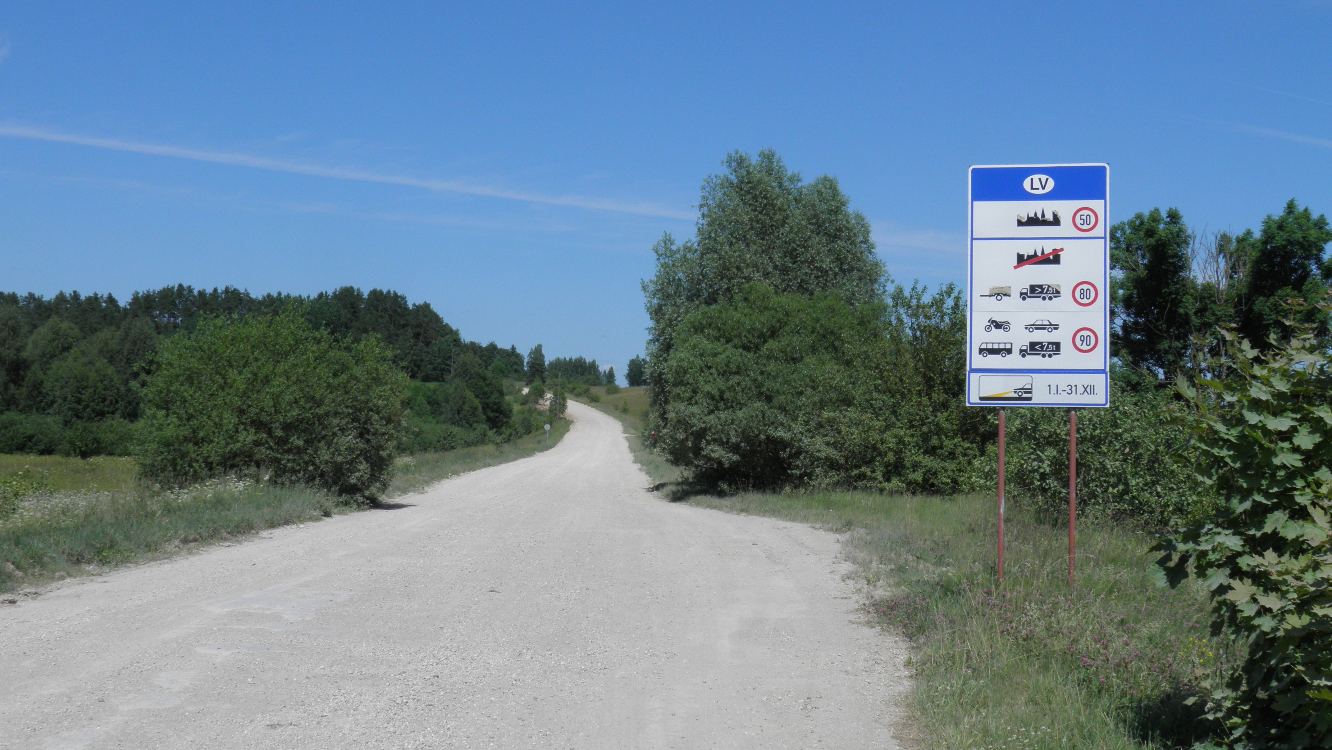 road